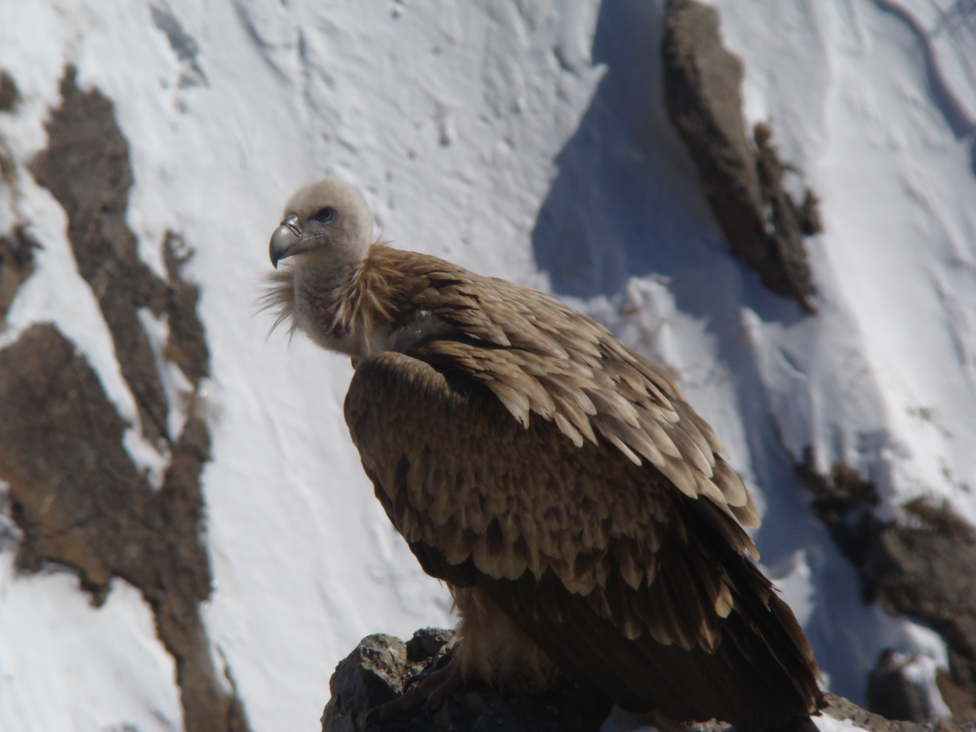 Himalayan griffon (Gyps Himalayensis)